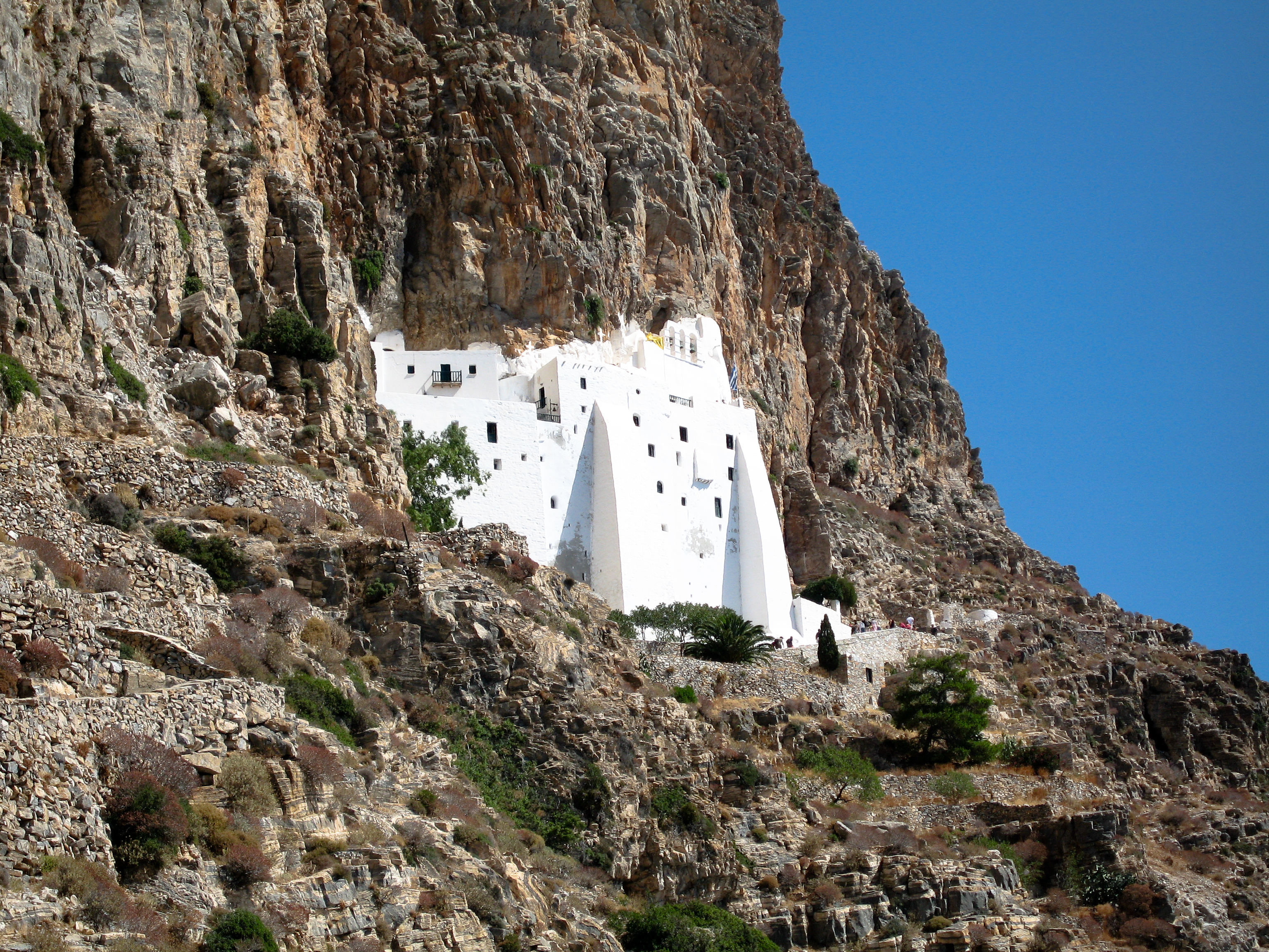 Amorgos Island, Greece